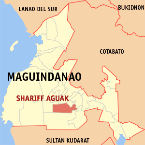 Map of the Maguindanao showing the location of Shariff Aguak